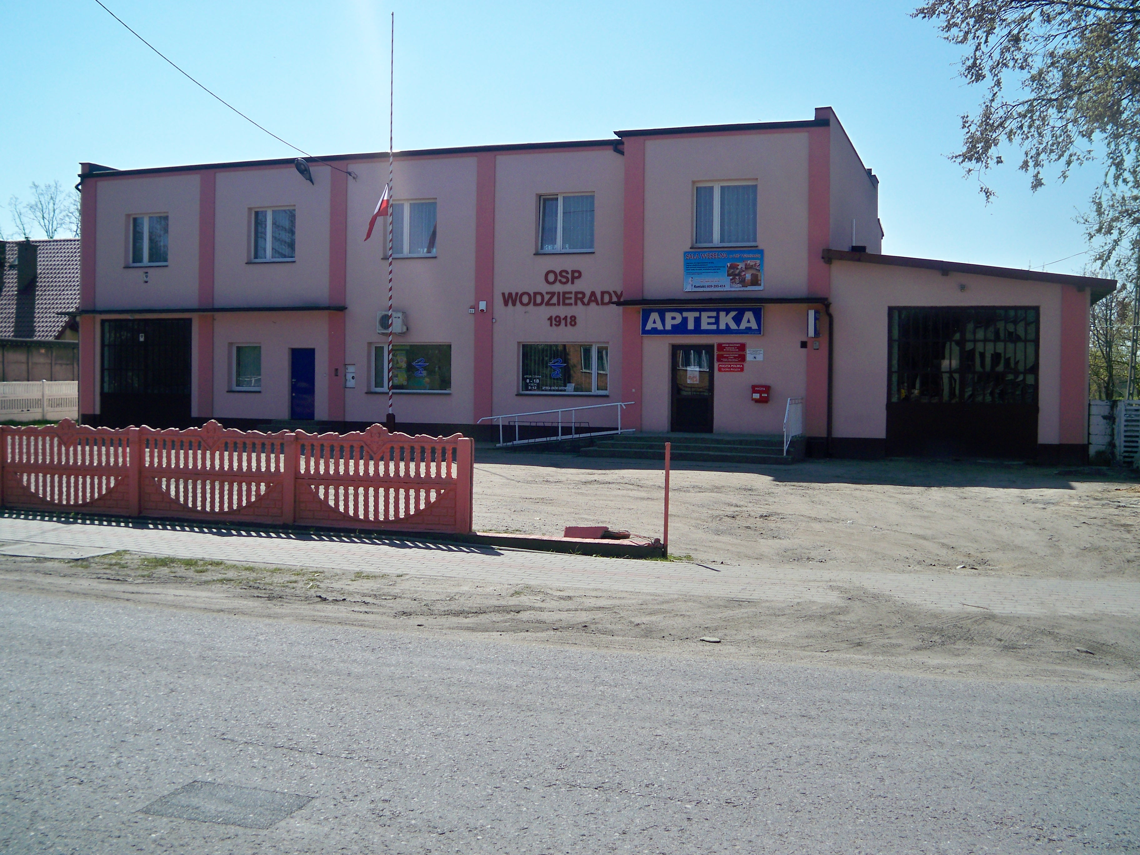 My photo